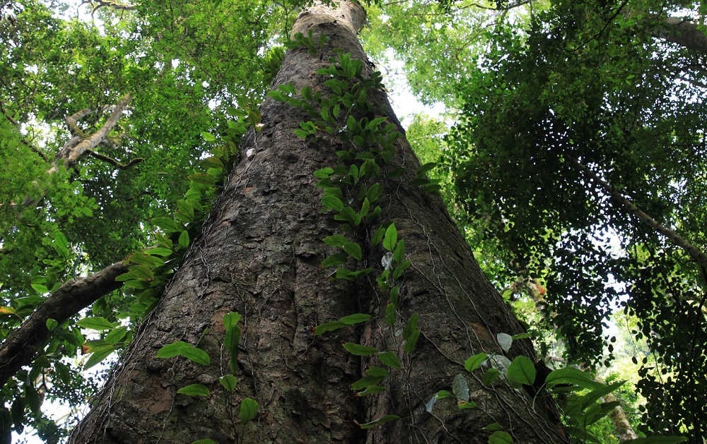 Largest extant specimen of Entandrophragma Excelsum (Swahili Mkukusu) at the slopes of Kilimanjaro measured at 81.5 m, being the tallest known tree in Africa, as photographed by researcher Andreas Hemp Kiswahili: Mti mrefu zaidi wa Mkukusu (entandrophragma excelsum) uliopimwa kuwa na mita 81.5 pale Tema, kata ya Mbokomu kwenye mitelemko ya Kilimanjaro, ni mti mrefu wa Afrika. Picha ya mchunguzi Andreas Hemp